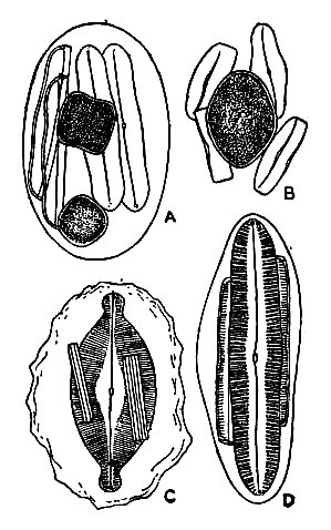 Formation of Auxospores. A. Navicula limosa. B. Achnanthes flexella. C. Navicula Amphisbaena. D. Navicula viridis.